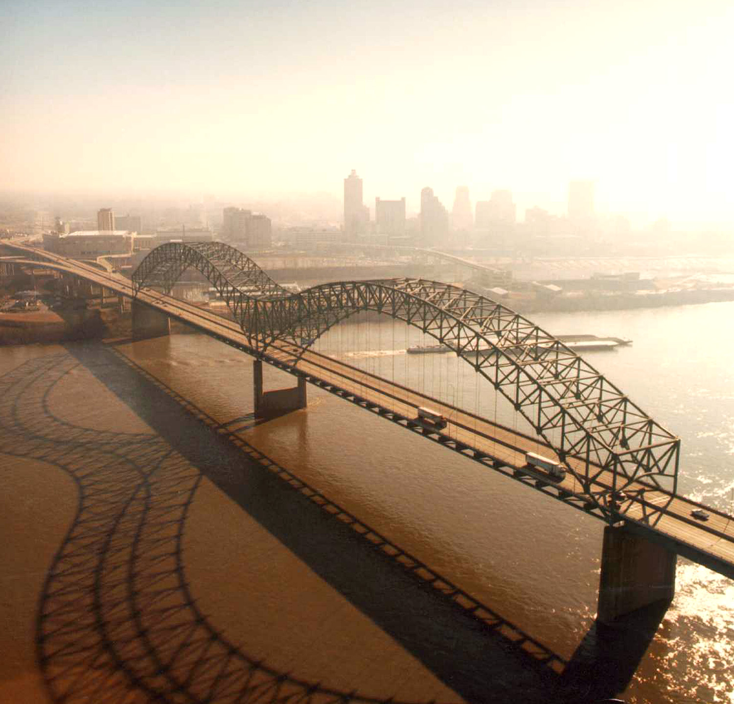 Aerial view of the Hernando de Soto Bridge across the Mississippi River between Memphis, Tennessee and West Memphis, Arkansas, USA. The bridge was opened in 1973 and carries six lanes of Interstate-40 across the river. View is from the Arkansas side to the east-southeast across the river to Memphis. At thumbnail size, image appears clear, at the size on the image page small artifacts can be seen, but at 100% (actual size) the image is heavily artifacted with JPG compression blocks over the entire photograph.